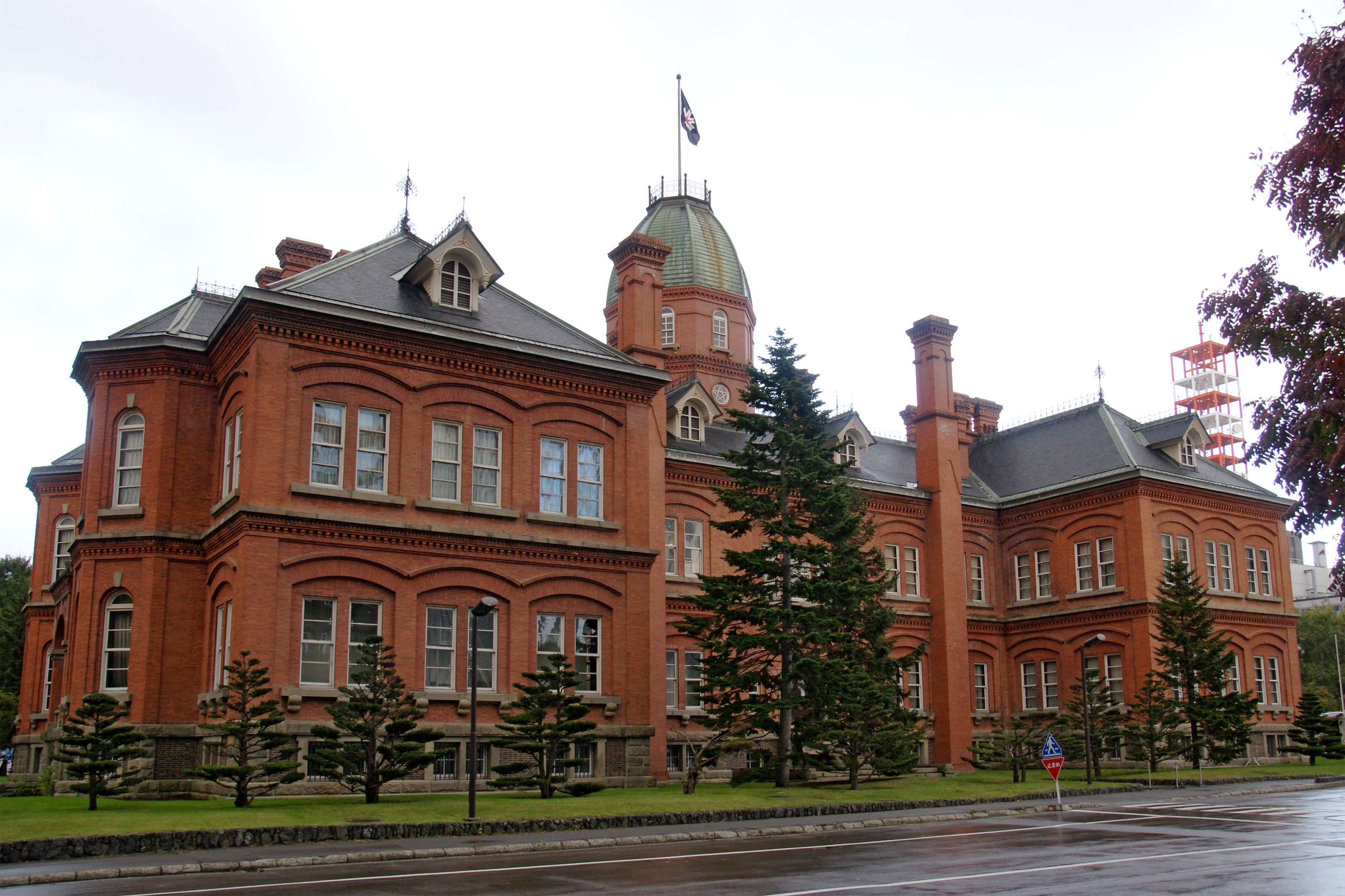 Former Hokkaido Prefectural Office Building in Sapporo, Hokkaido prefecture, Japan